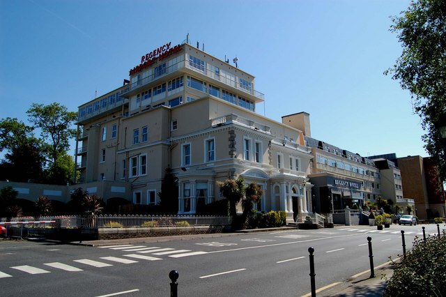 Regency Airport Hotel The Regency Hotel is located 3km north of Dublin City centre on the main route to Dublin’s International Airport.